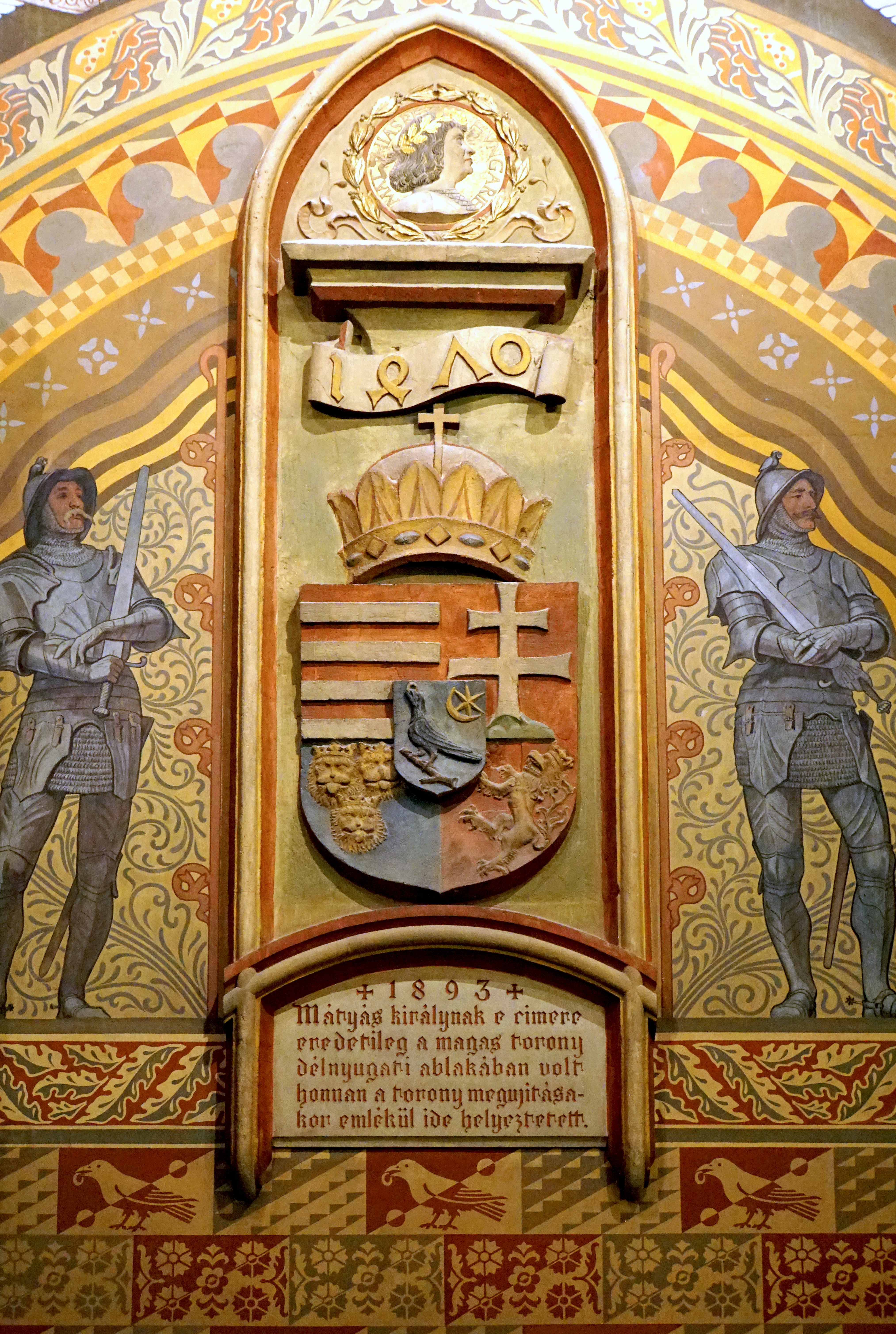 Coat-of-arms of Matyas, one of the greatest kings of Hungary reigned from 1459 to 1490.